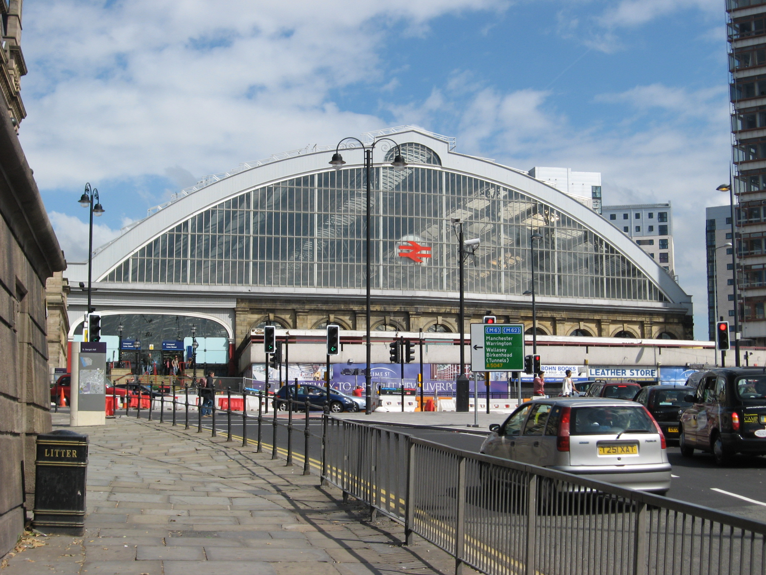 Front of Lime Street station